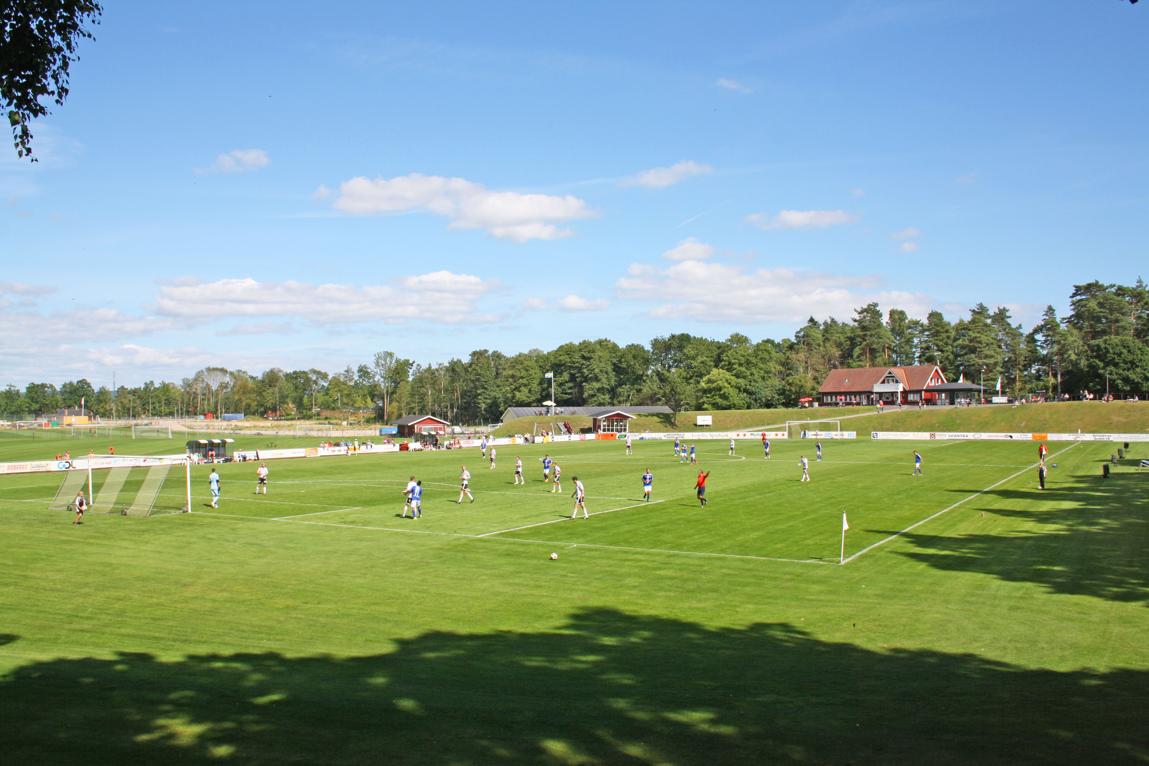 The Strandängen Sports Ground, Bromölla, Scania, Sweden.